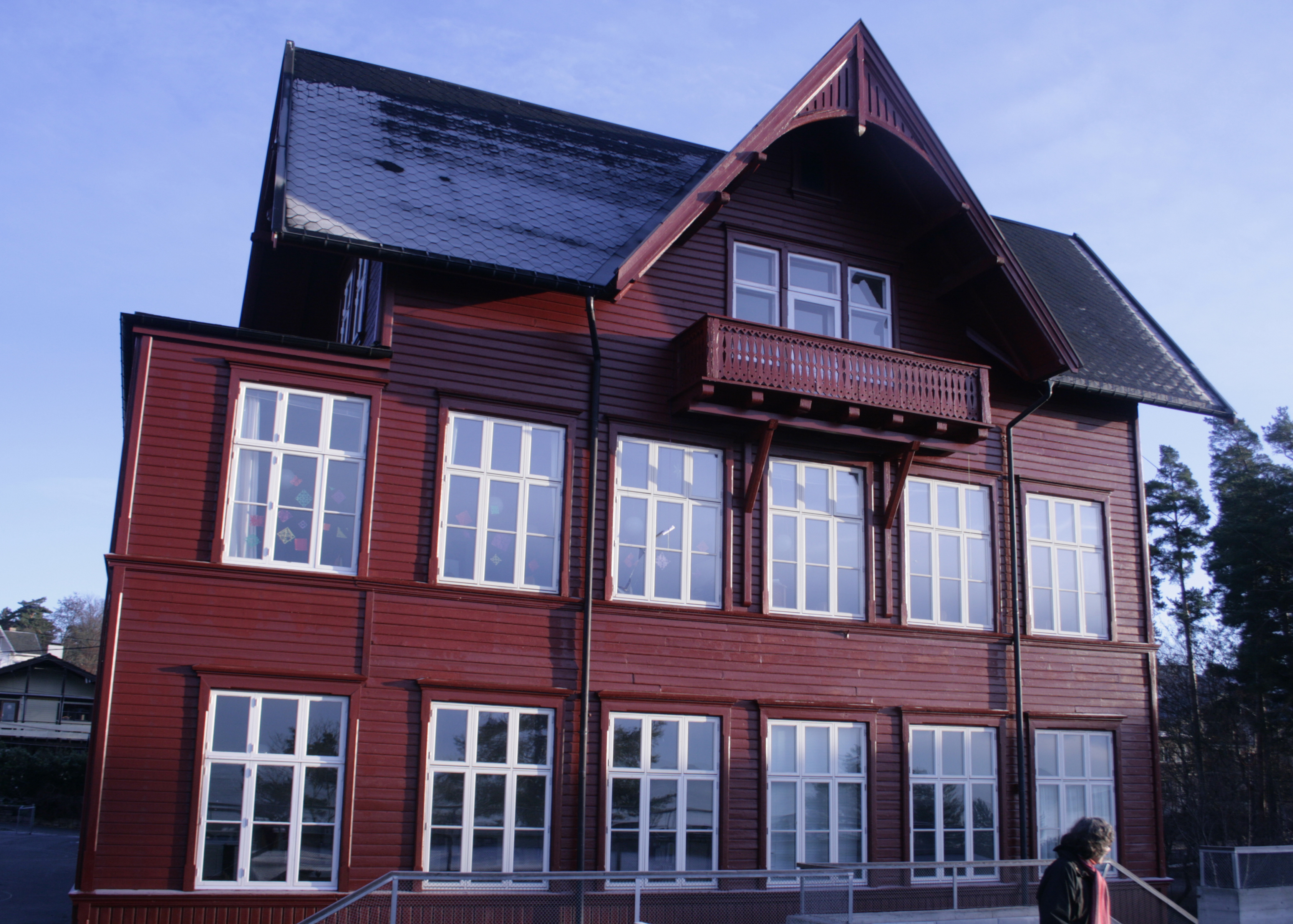 Solveien 113 at Nordstrand in Oslo, Norway. Privat school built in 1891, architect Hjalmar Welhaven. Later public school. From 1926 apartments. From 1997 Waldorf school.